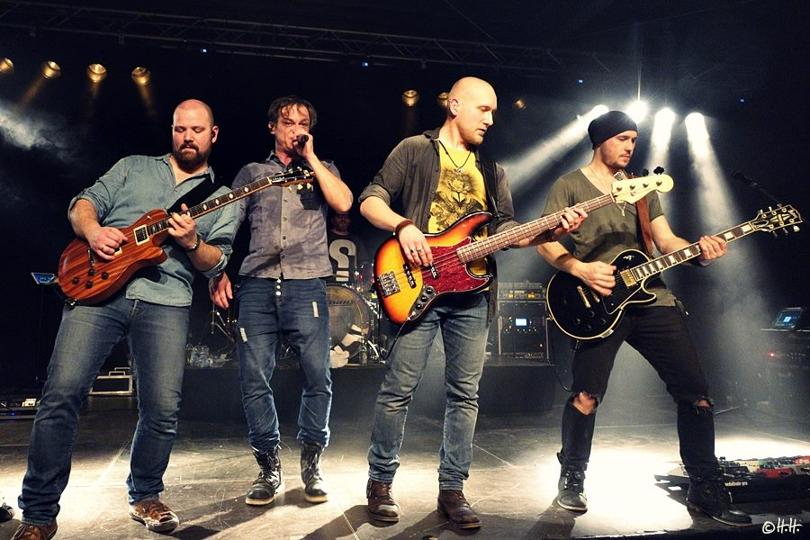 Thomas Godoj and band during his Mundwerk-Tour, Recklinghausen